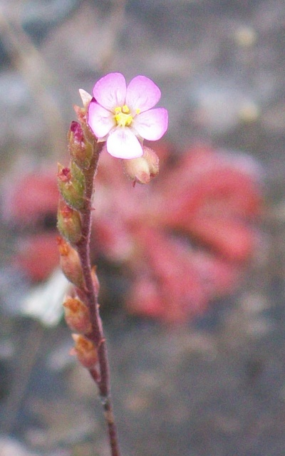 flower of Drosera spatulata. Euro Track, near dam above The Basin, Ku-ring-gai Chase National Park.